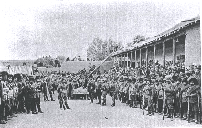 Battalion of Armenian volunteer units pictured in 1914